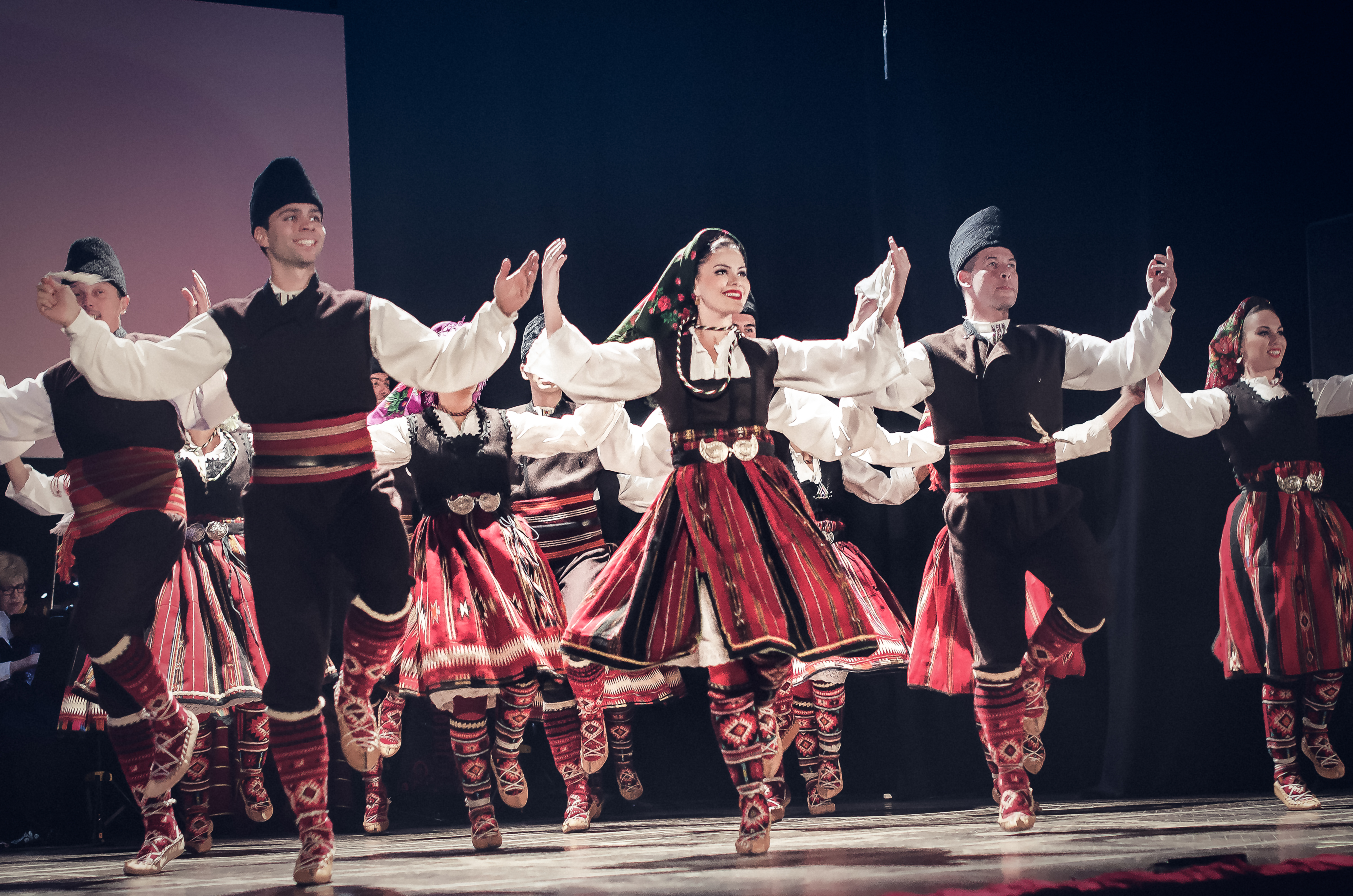 Srpski (latinica): Ansambl narodnih igara i pesama Srbije KOLO This photo has been taken in the country: Bosnia and Herzegovina